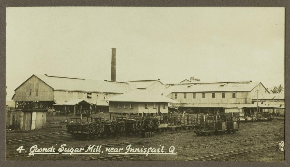 Goondi Sugar Mill, near Innisfail, 1930 Innisfail is one of the wettest cities in Australia and was established in 1880. Innisfail is basically a sugar town and its economy is largely dependent on the sugar plantations which surround the town, the bulk sugar loading facilities at Mourilyan and the numerous mills in the area.